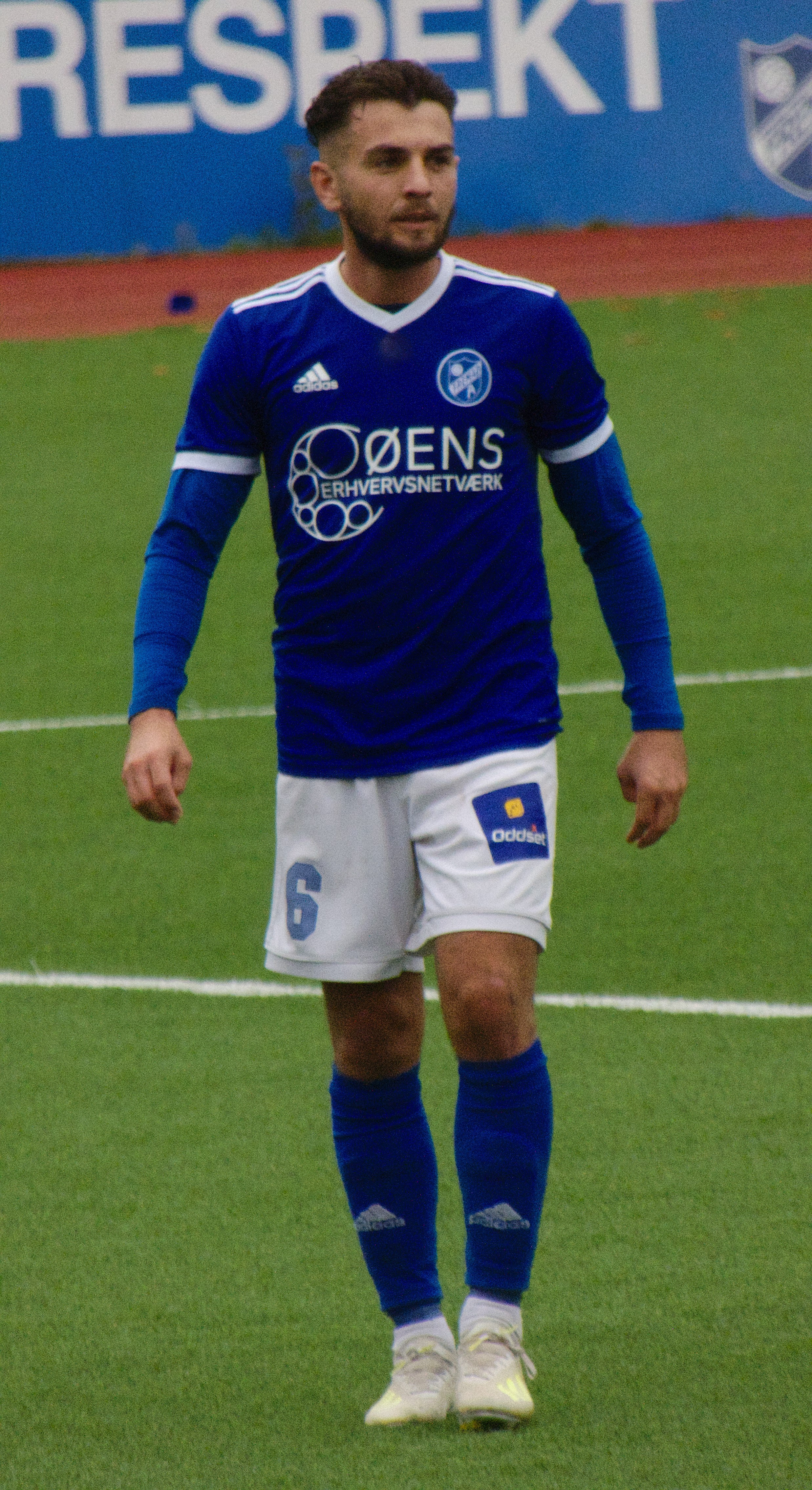 BK Fremad Amager midfielder Valon Ljuti.